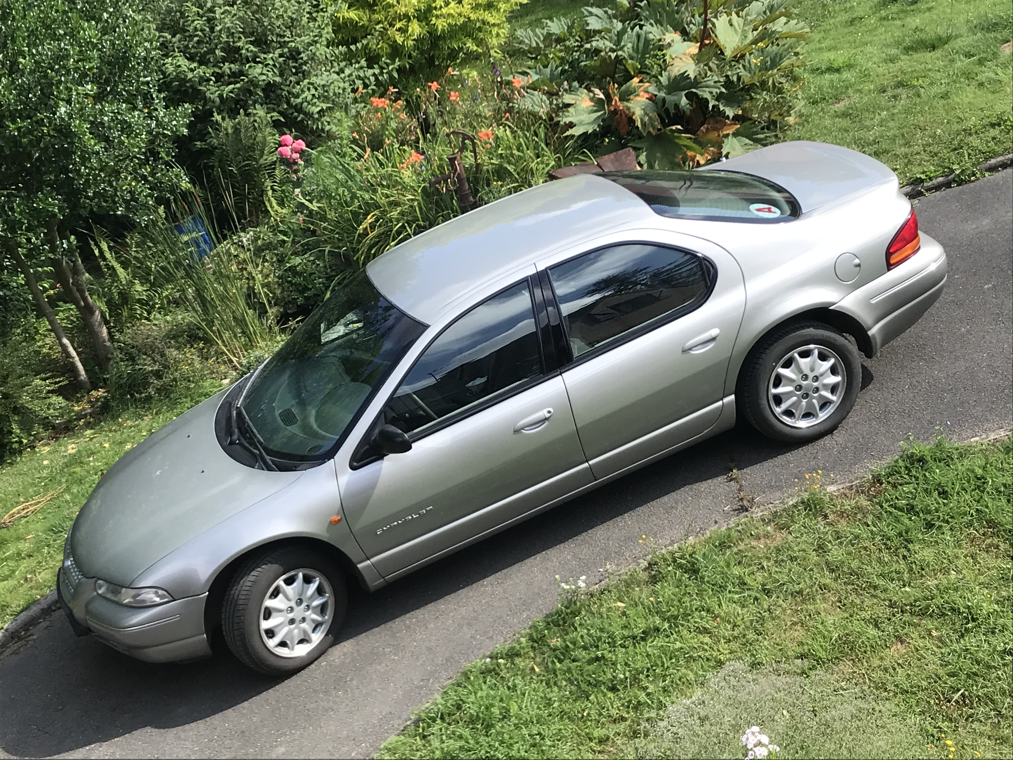 European Chrysler Stratus (1996), 2.0L engine.